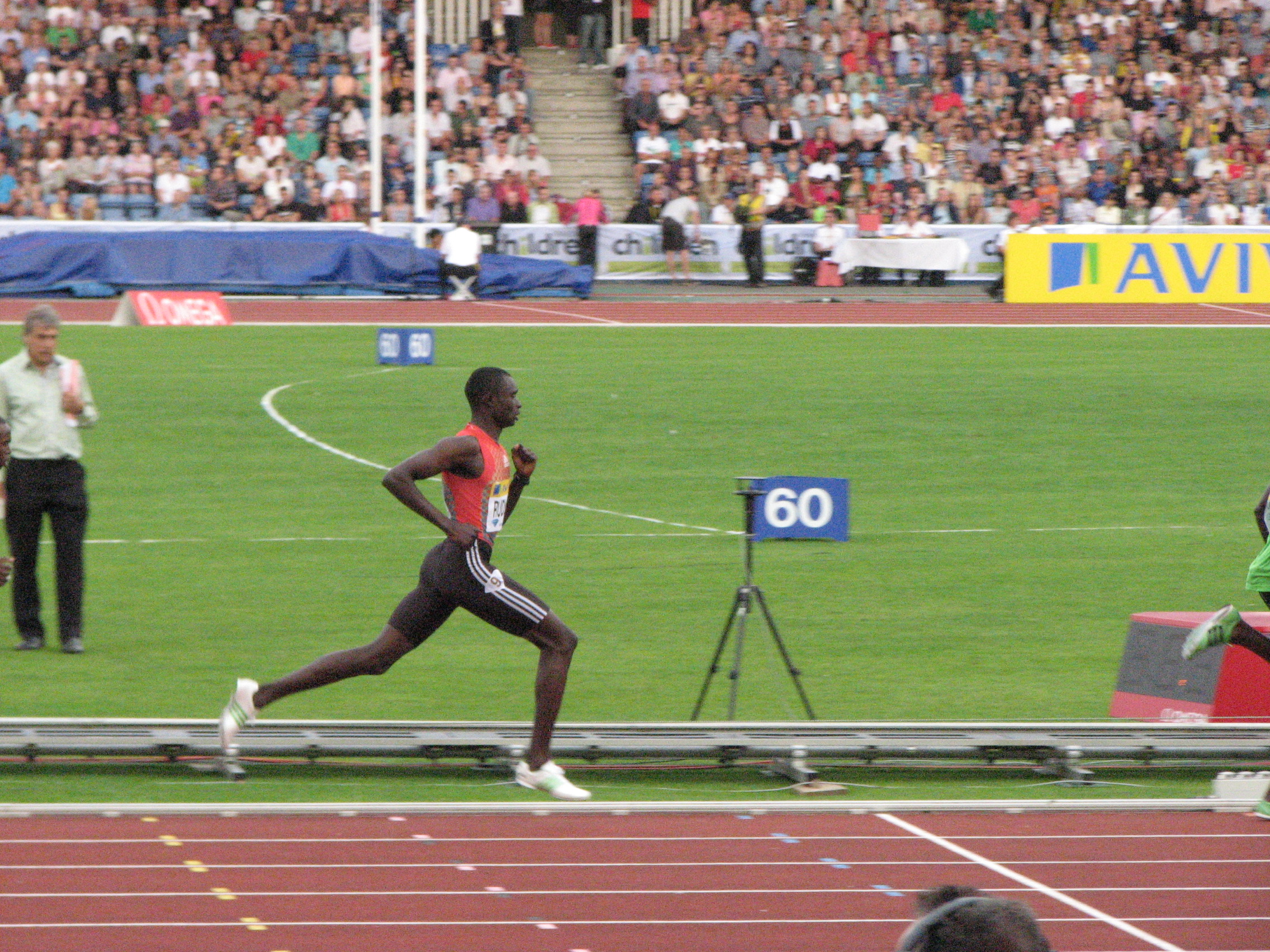 David Rudisha winning the men's 800m in 1:42.91. This was a great race, with fours Season's Bests plus a Personal Best from Andrew Osagie of GB. Aviva London Grand Prix, hosting the Diamond League, Crystal Palace, Friday 5 August 2011.